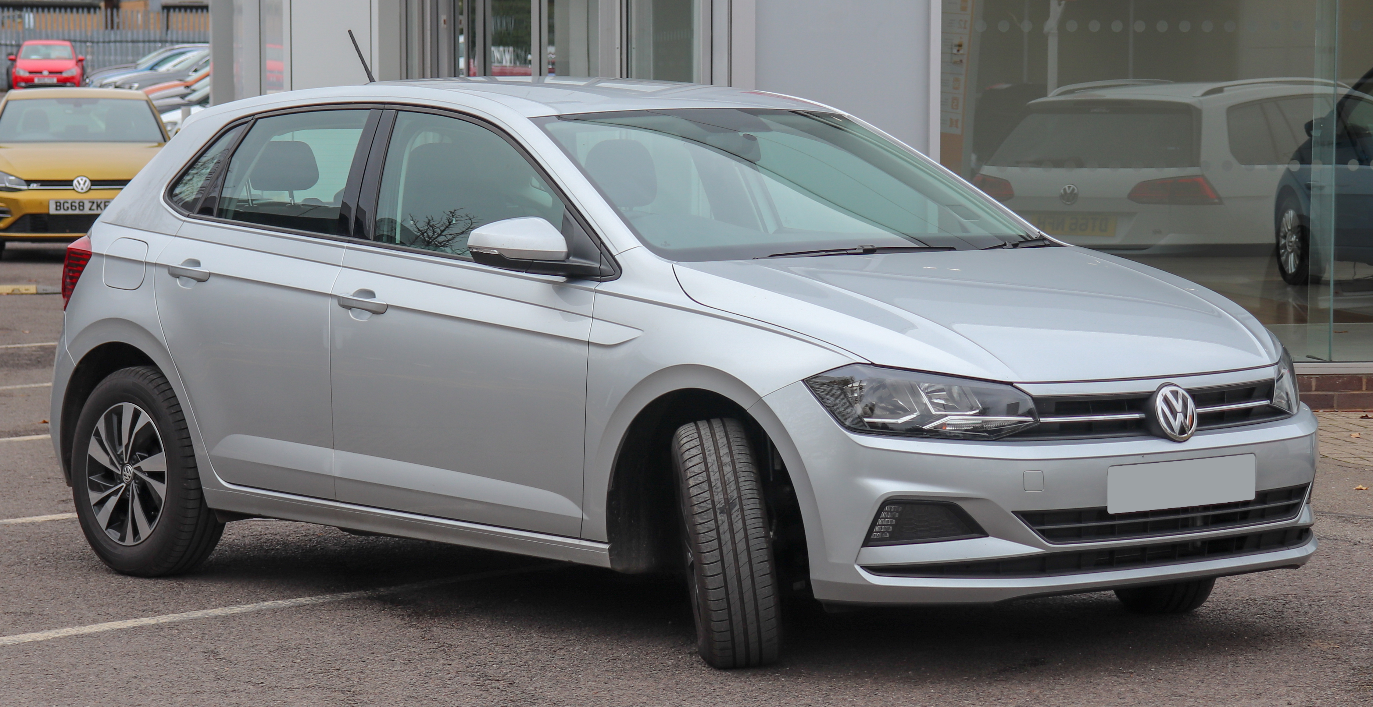 2018 Volkswagen Polo SE TSi 1.0 Front Taken in Leamington Spa